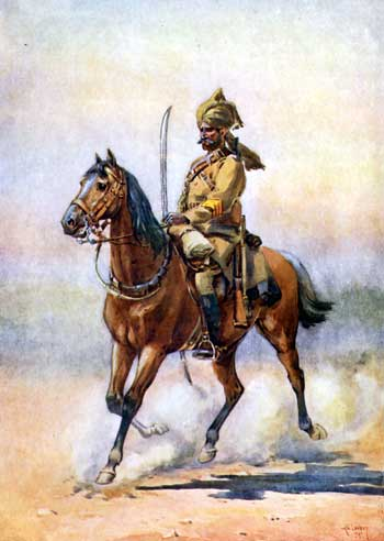 A Pathan Sowar of 25th Cavalry (now 12th Cavalry, Pakistan Army). Watercolour by AC Lovett, 1910. Published in MacMunn & Lovett, Armies of India, 1911.